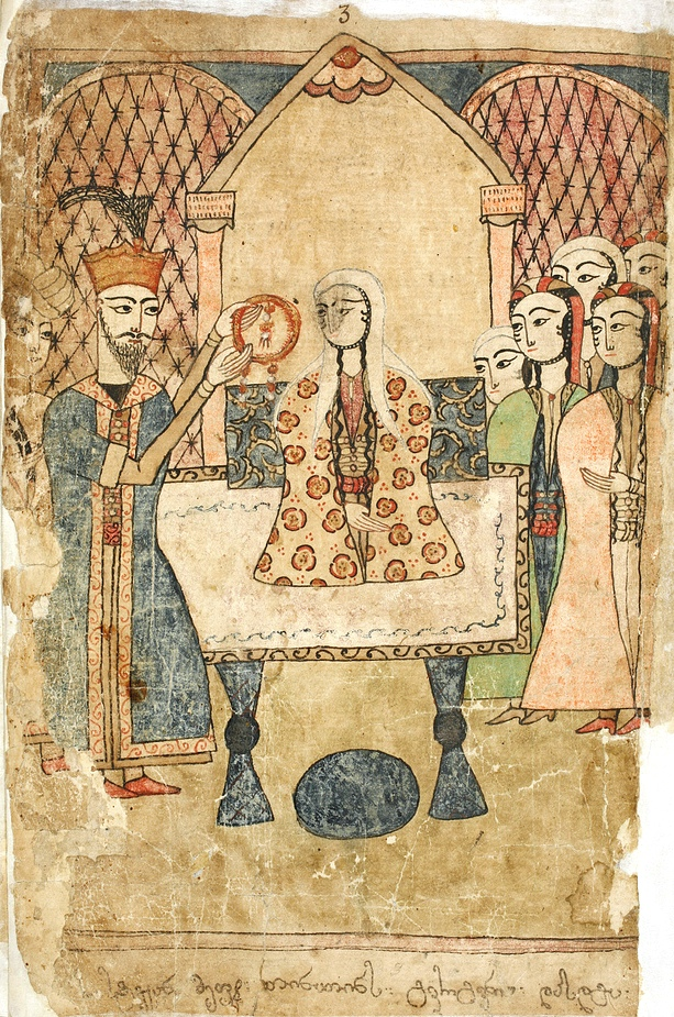 "Crowning Tinatini". a miniature by Mamuka Tavakalashvili from the manuscript of Shota Rustaveli's "Knight in the Panther's Skin". H599 8v National Center of Manuscripts, Tbilisi, Georgia